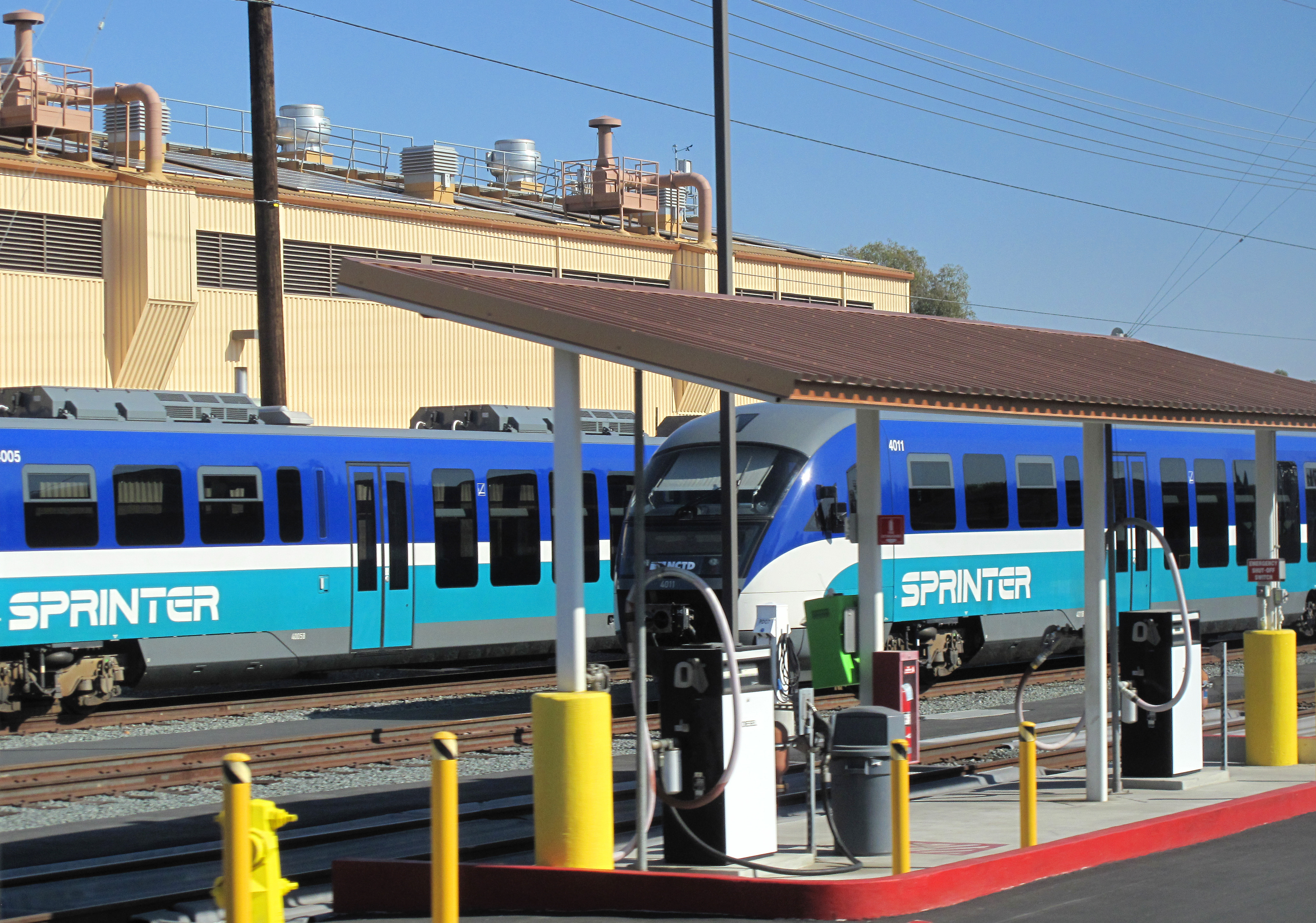 North County Transit District Sprinter trains on sidings at Oceanside Transit Center